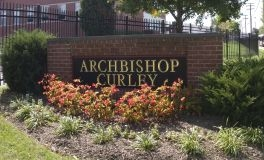 sign outside Archbishop Curley HS Baltimore, MD